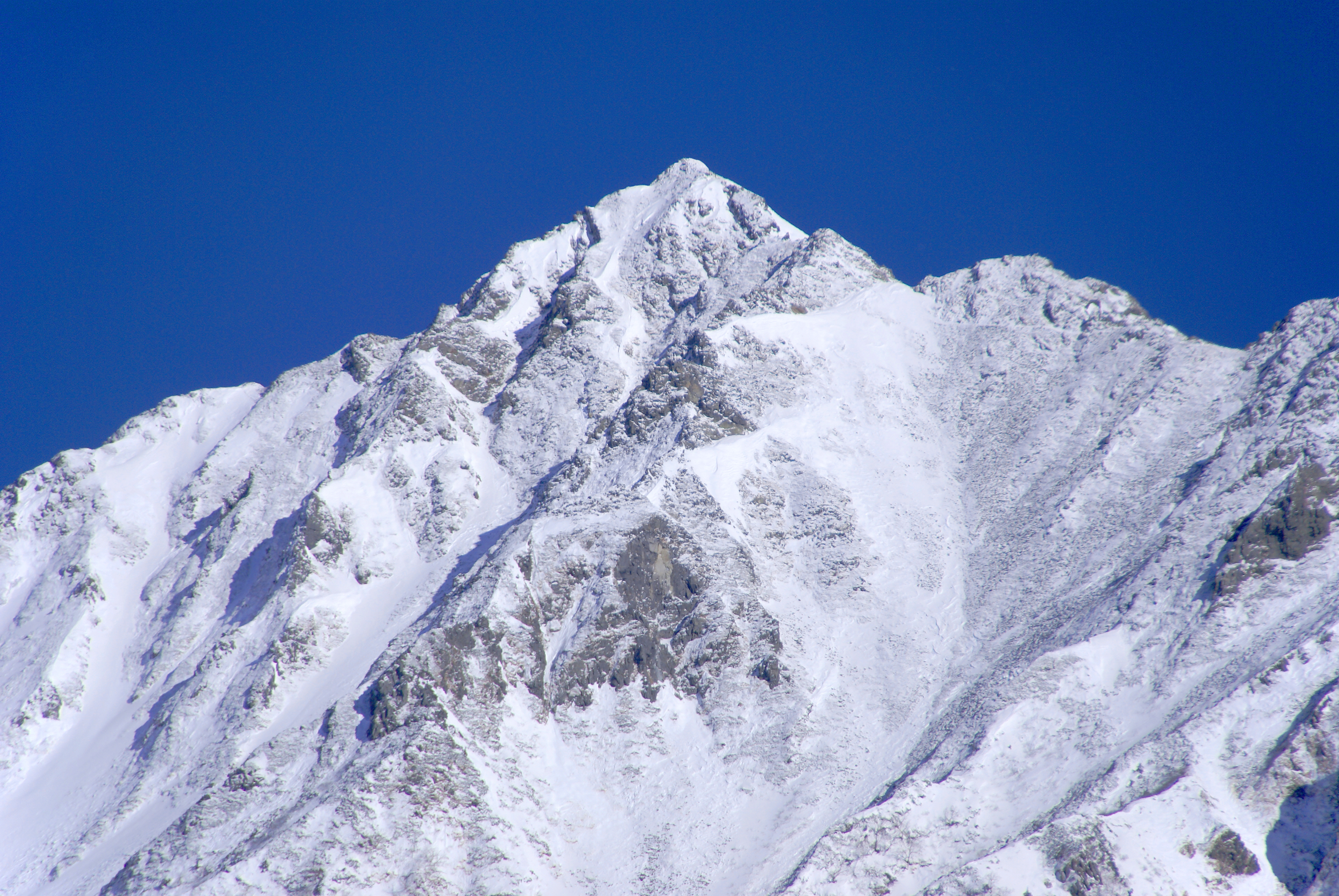 Mount Nishihotaka (2909m) from Nishi-Hotakaguchi (2156m) in Takayama, Gifu prefecture, Japan (retouched version)